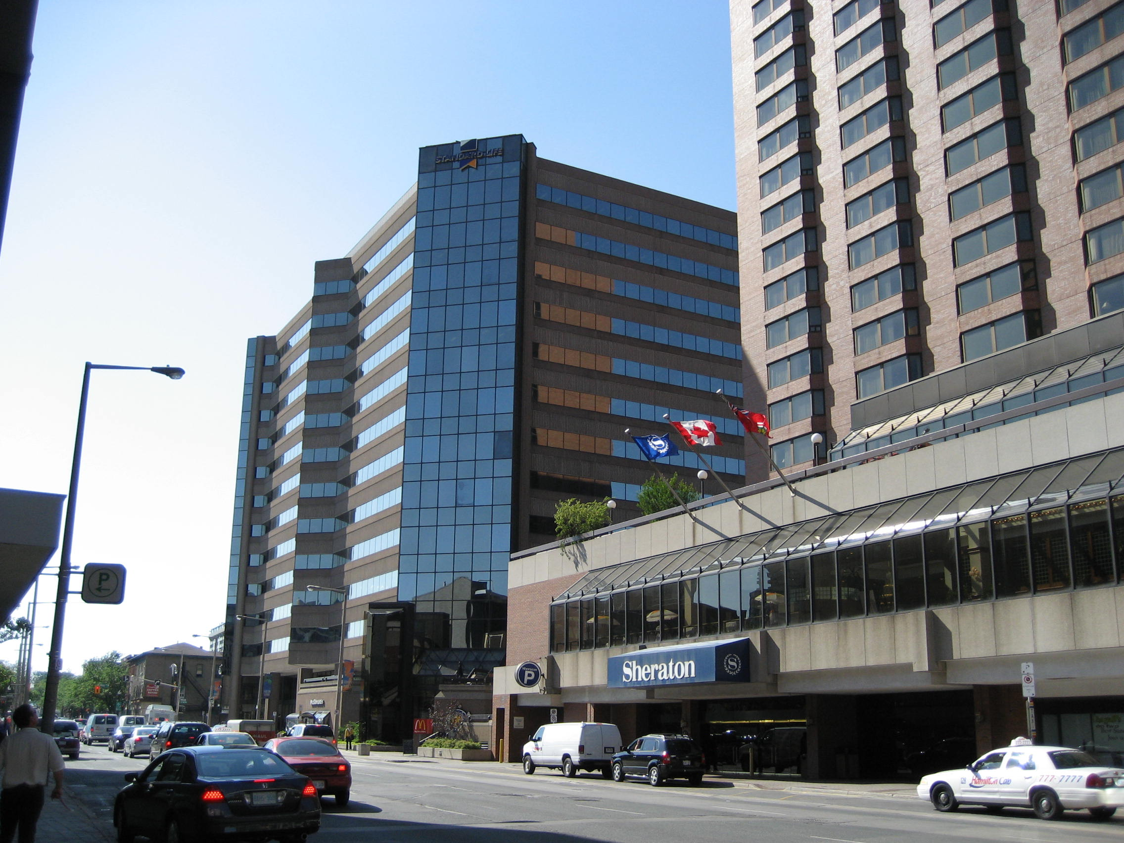 Standard Life Centre & Sheraton Hamilton, downtown Hamilton